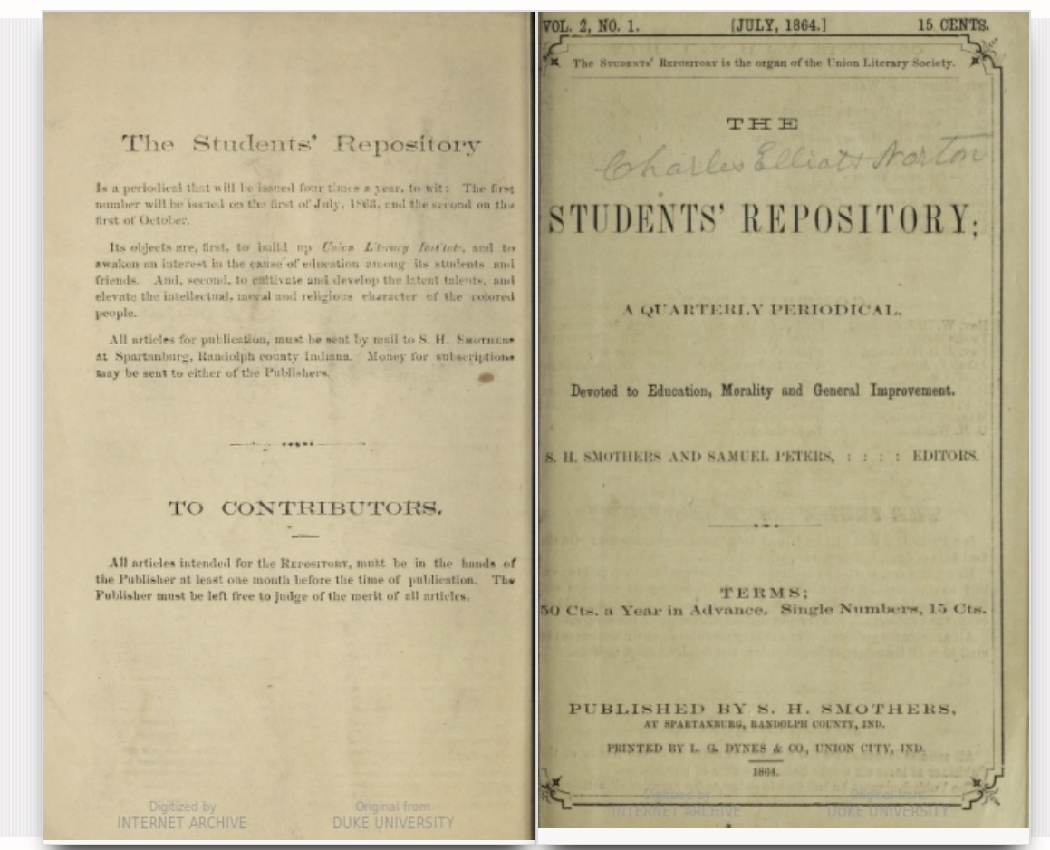 Title page of The Students' Repository, magazine of the Union Literary Institute, Randolph County, Indiana.